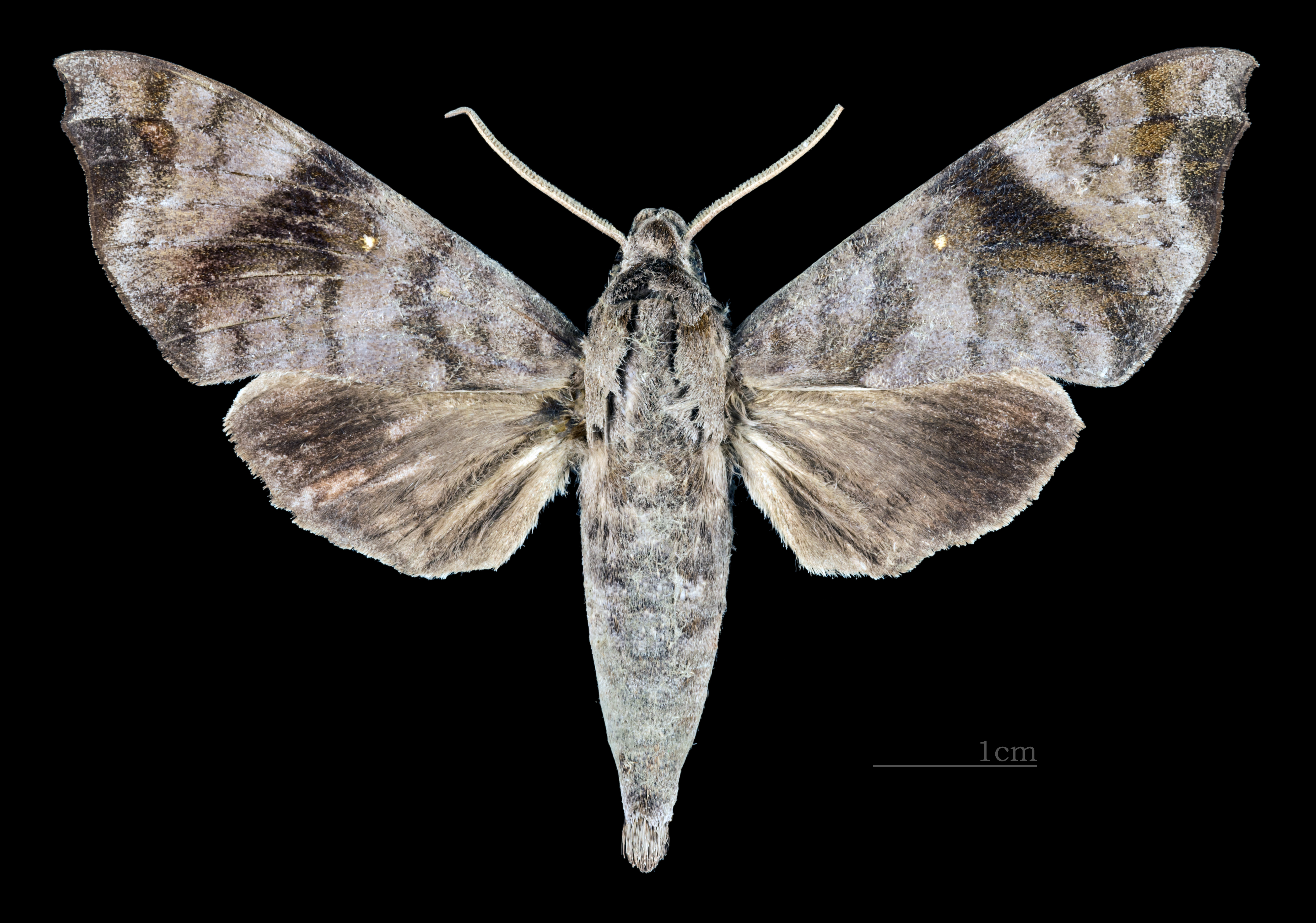 Acosmeryx socrates - Dorsal side Collection of the Mathematician Laurent Schwartz